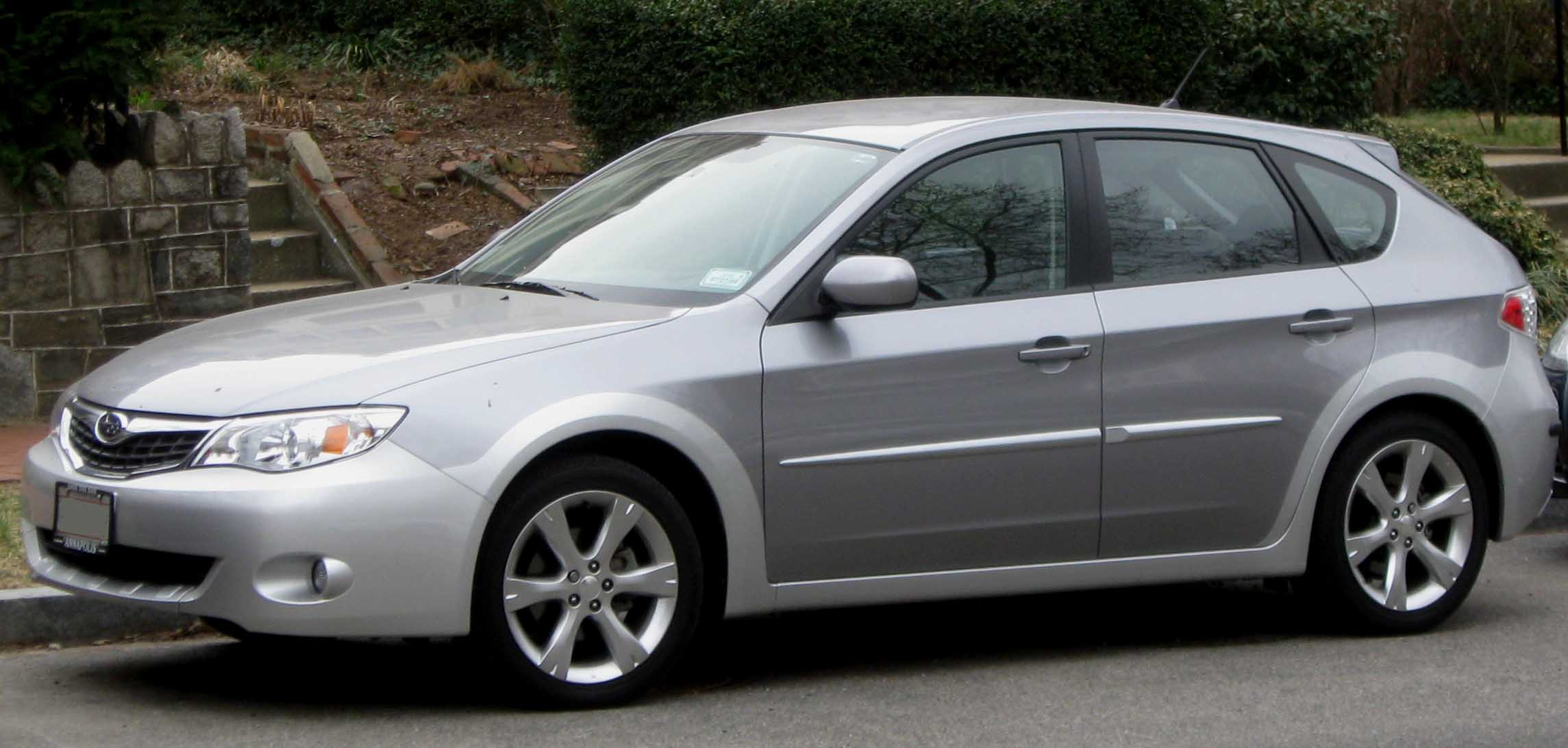 2008-2009 Subaru Impreza Outback Sport photographed in Washington, D.C., USA.